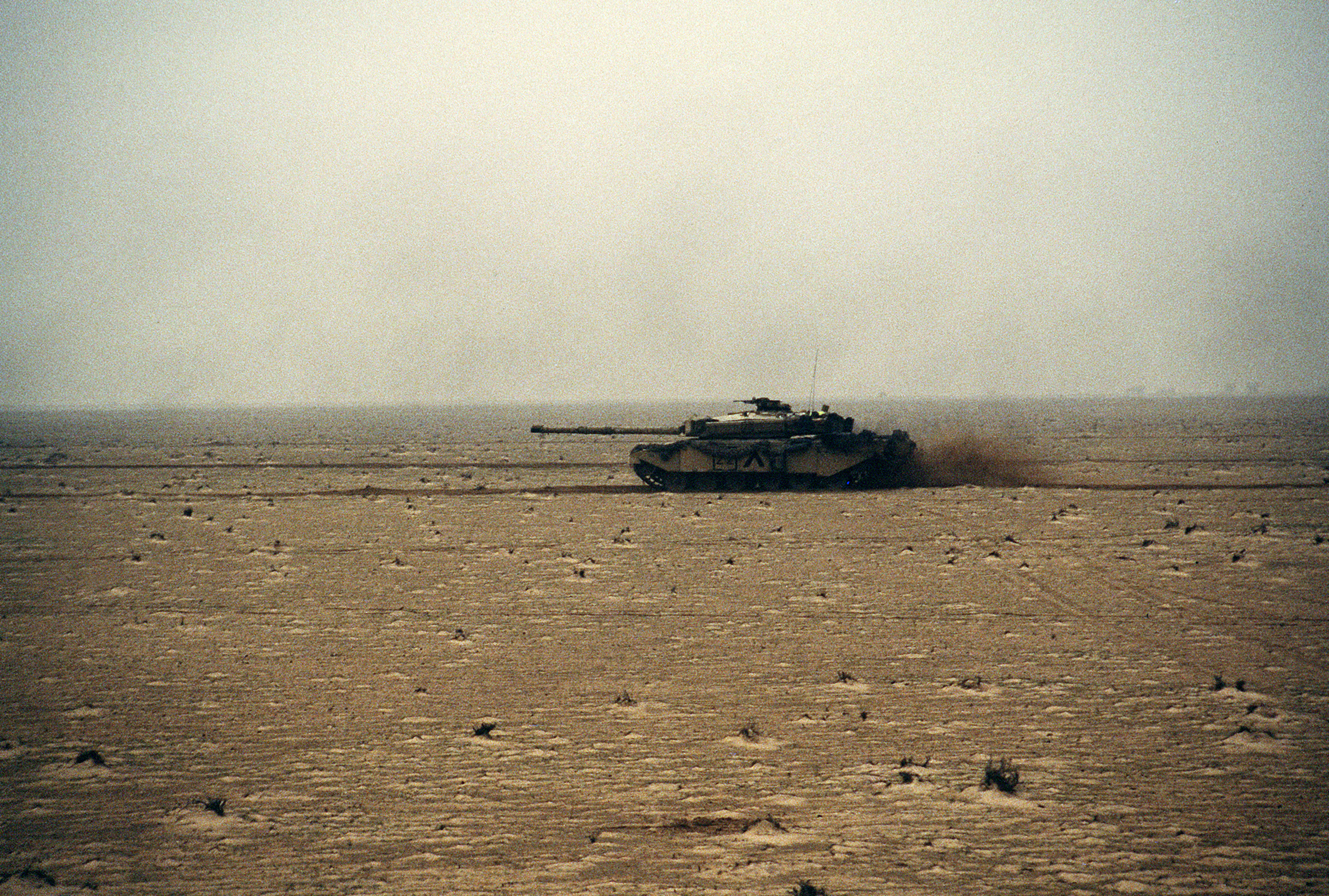 A Challenger 1 main battle tank of the 7th Brigade Royal Scots, 1st United Kingdom Armored Division, crosses into Kuwait from southern Iraq during Operation Desert Storm.